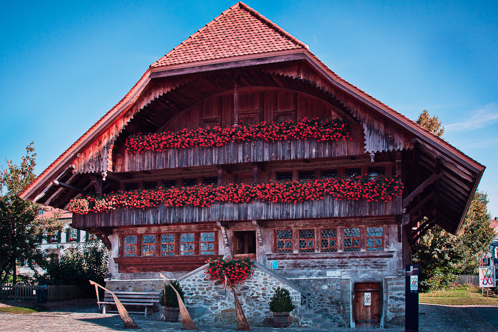 Sigristenhaus